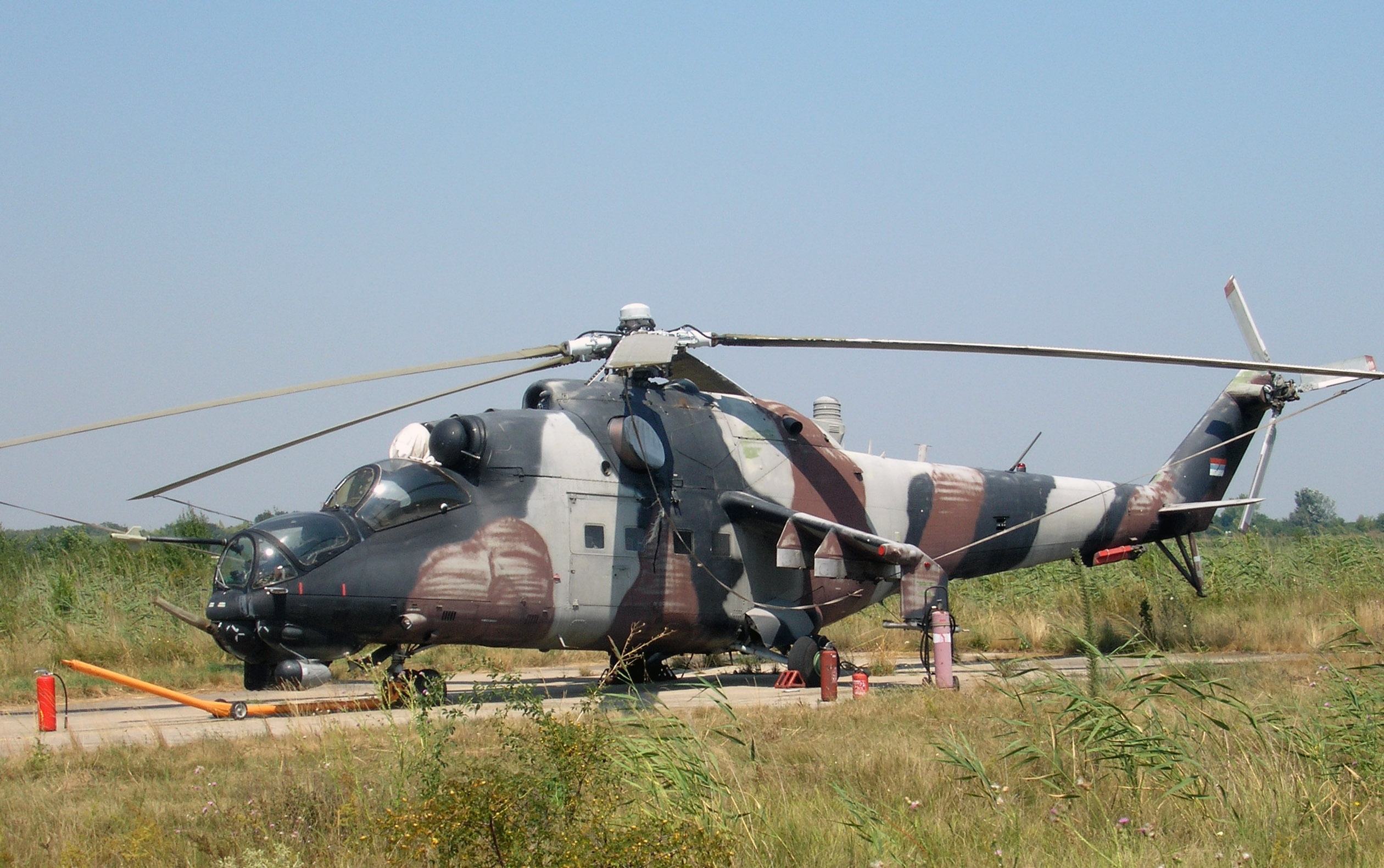 Mil Mi-24V attack helicopter of 138. Mixed-Transport-Aviation Squadron, 204th Air Base of Serbian Air Force, at Batajnica airbase during the Saint Elijah, the Aviation Day in Serbia.